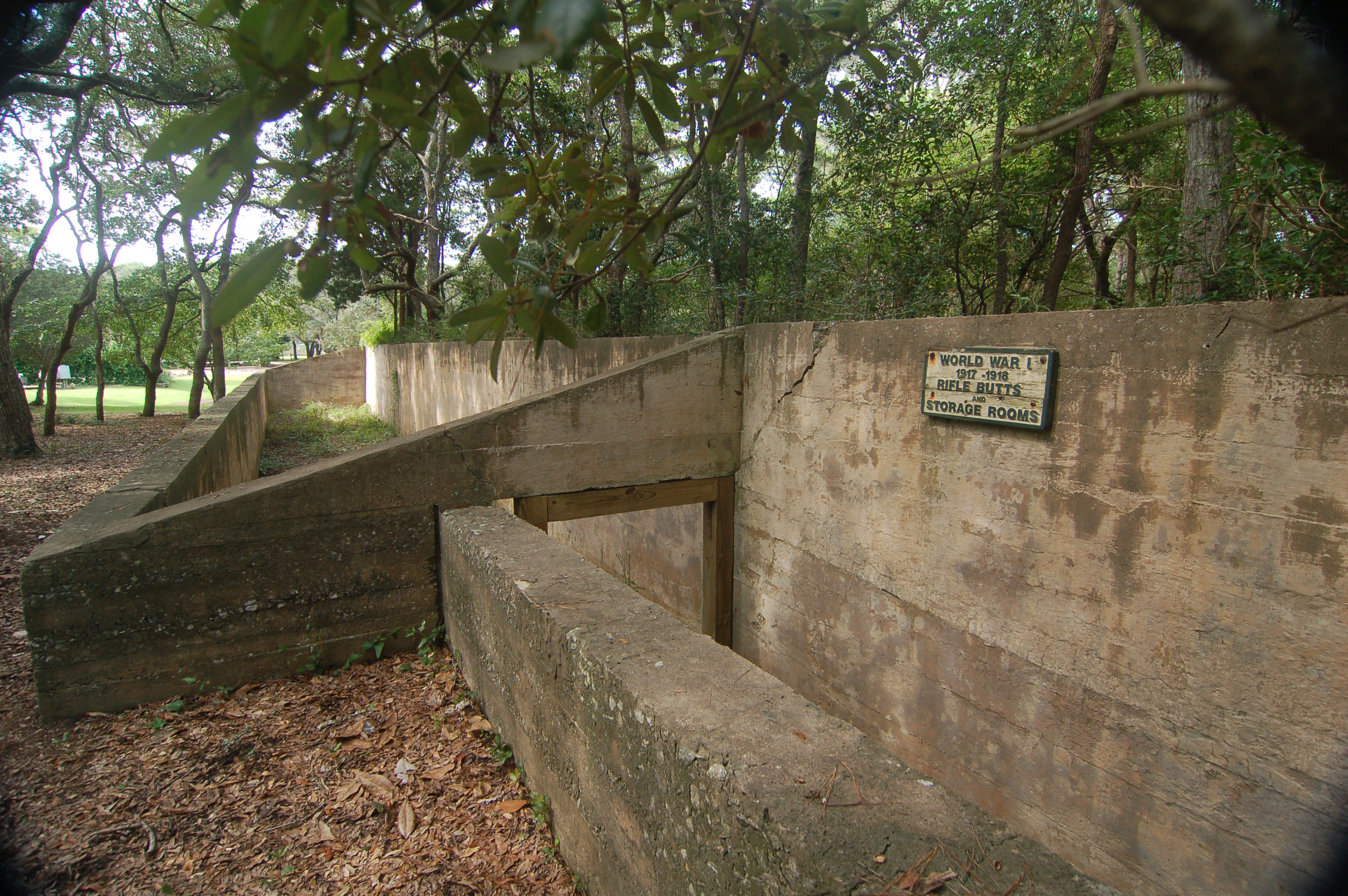 View of the Rifle Pits looking west.